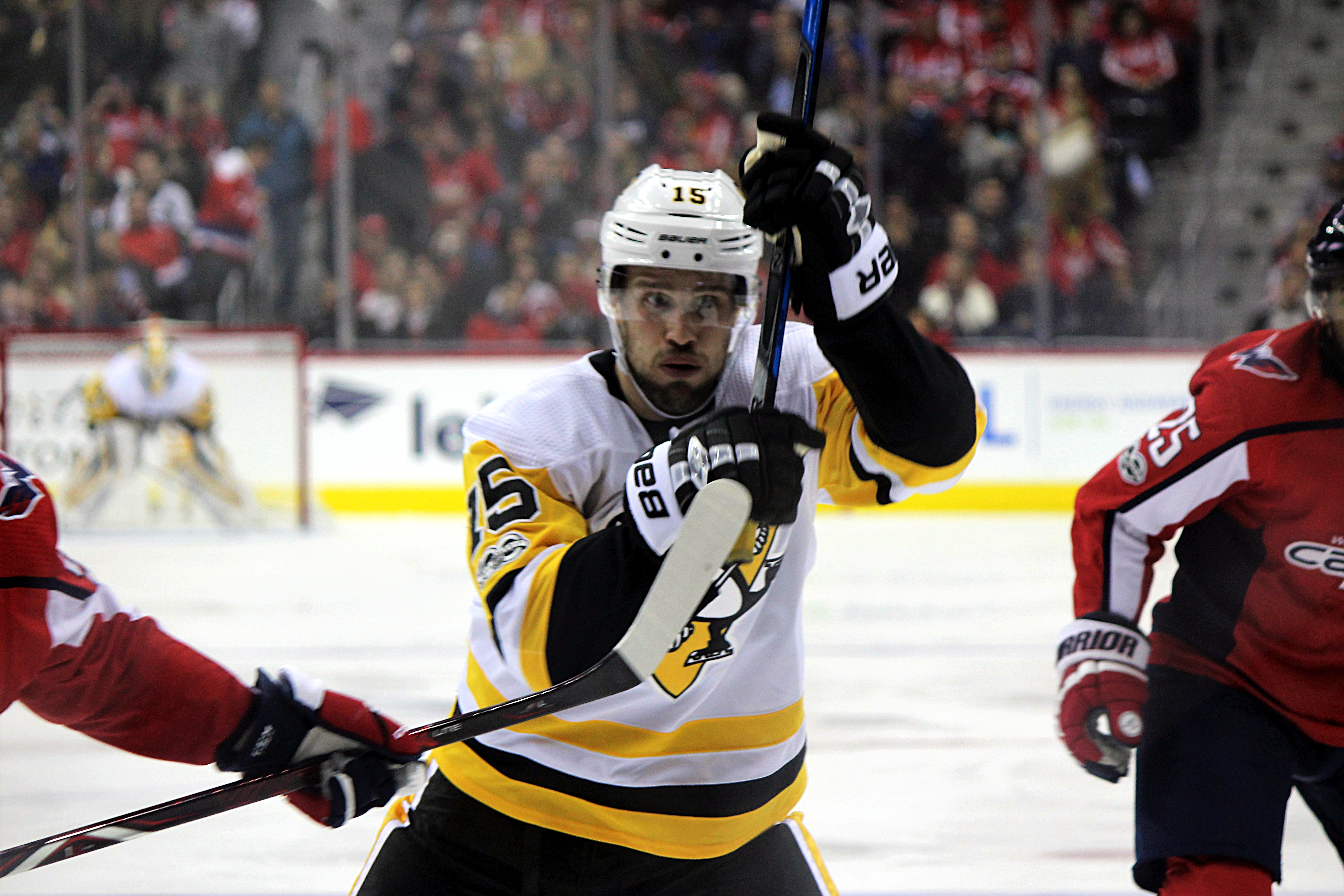 Pittsburgh Penguins forward Riley Sheahan during a game against the Washington Capitals, November 10, 2017, at Capital One Arena in Washington, D.C.